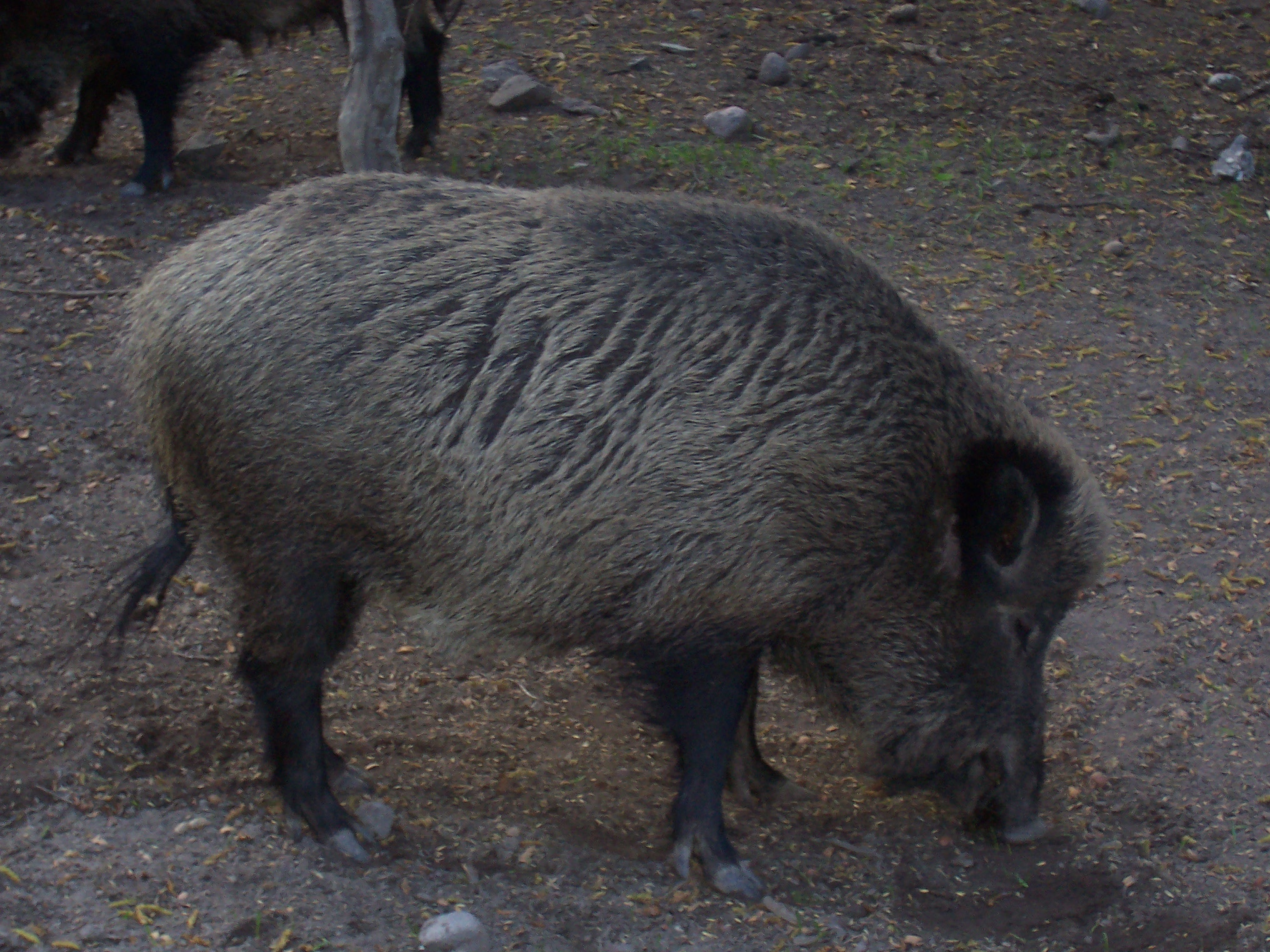 Wild boar in the wisent-reserve in Białowieża/Poland